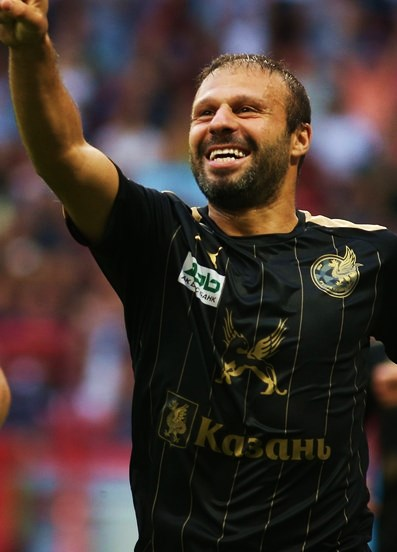 Gökdeniz Karadeniz